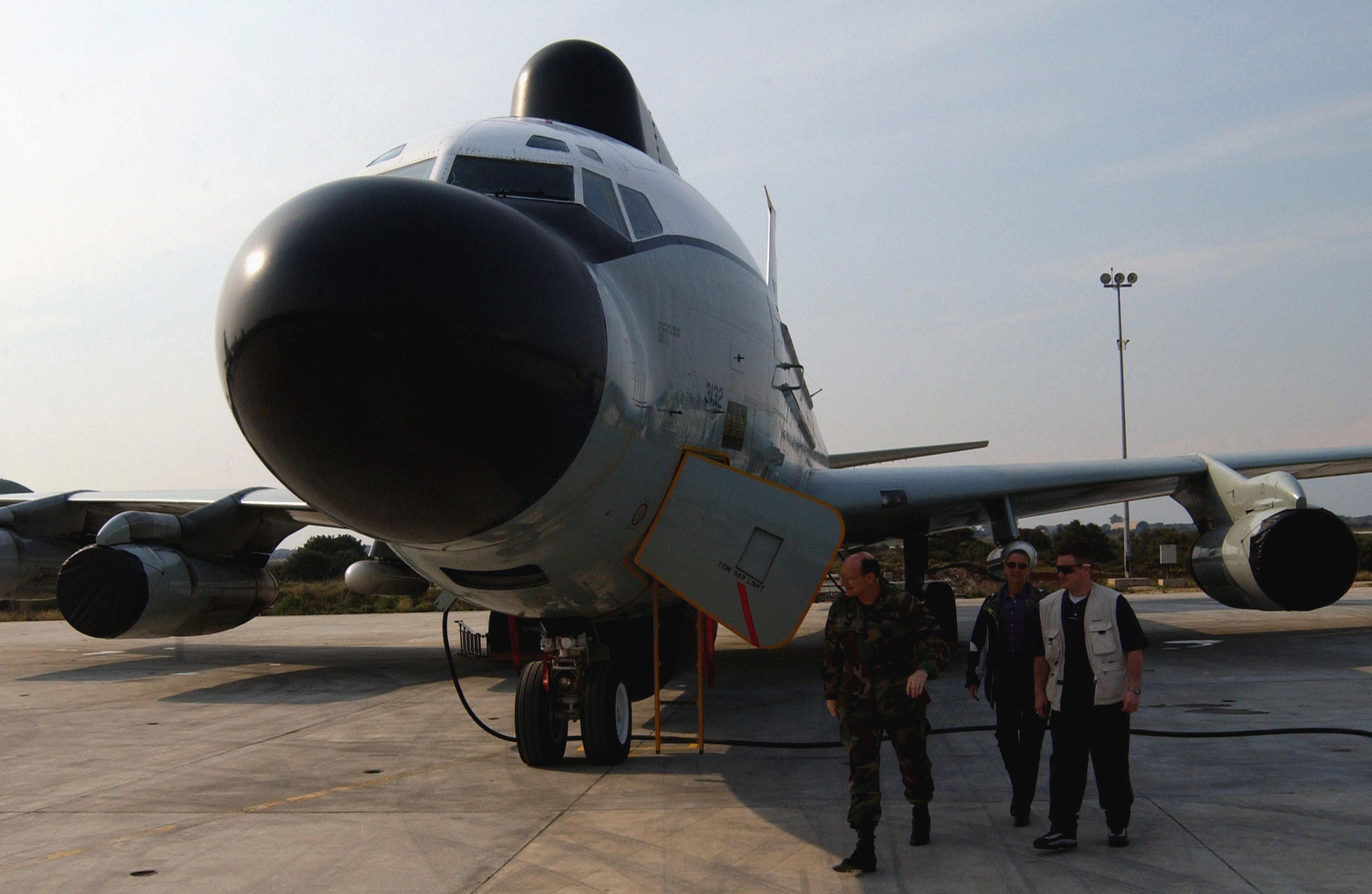 US Air Force (USAF) General (GEN) Gregory S. Martin (left) Commander, United States Air Forces in Europe (USAFE) is given a tour of a USAF NKC-135 ÒBig CrowÓ aircraft, during his visit with personnel assigned to the 398th Air Expeditionary Group (AEG) at a forward deployed operating base, during Operation IRAQI FREEDOM.(U.S. Air Force photo by Tech. Sgt. Robert J Horstman) Location: Unknown